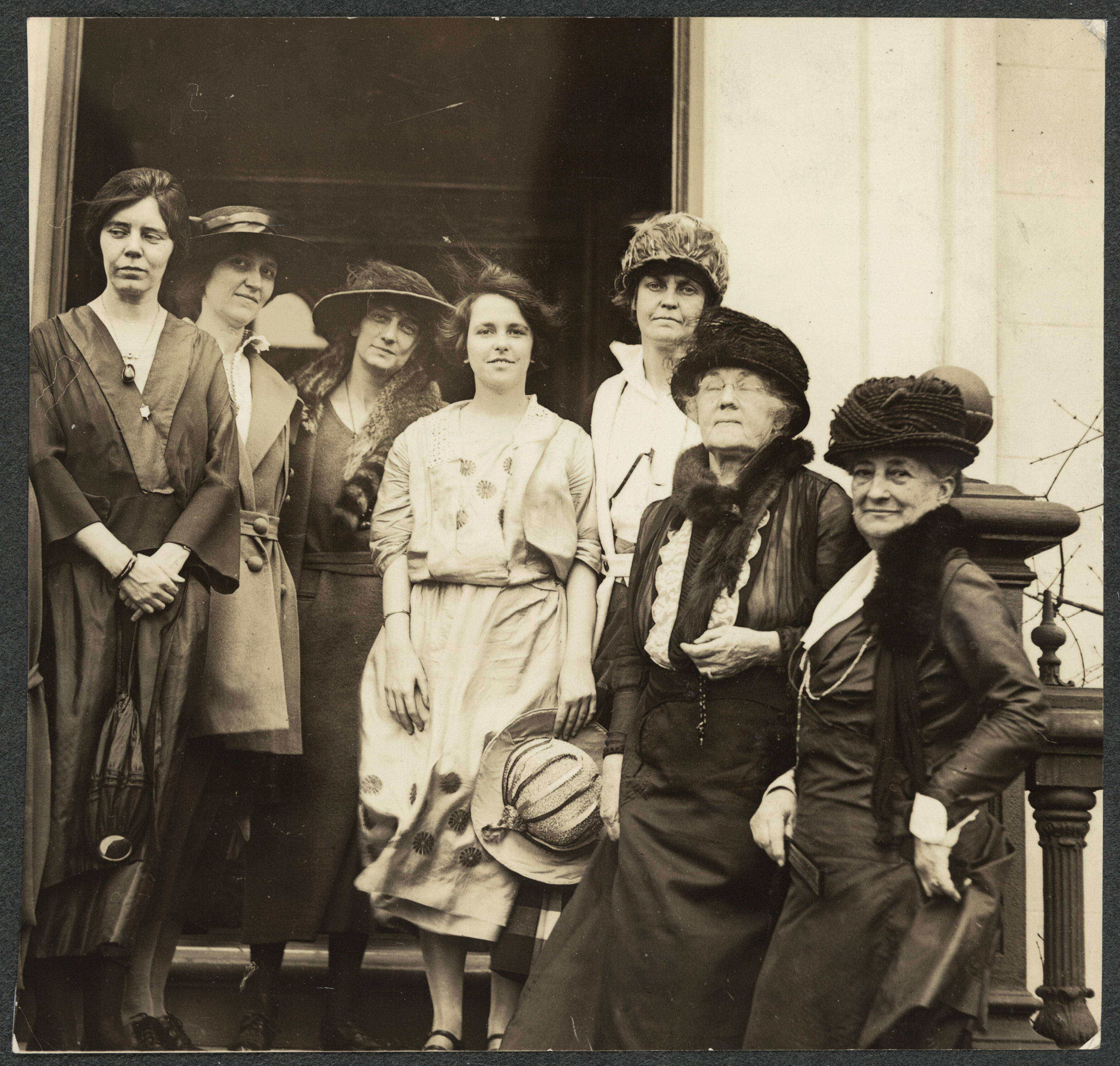 Officers of the National Woman's Party meeting in Washington to complete the plans for the dedication ceremonies on May 21st of the Party's new national headquarters opposite the Capitol. Alice Paul, New Jersey, vice president, Miss Sue White, Tennessee Chairman, Mrs. Florence Boeckel, executive committee, Miss Mary Winsor, member of the Council, Miss Anita Pollitzer, South Carolina, legislative secretary, Sophie Meredith, Virginia chairman, and Mrs. Richard [Wainwright], District of Columbia, member of the Council.